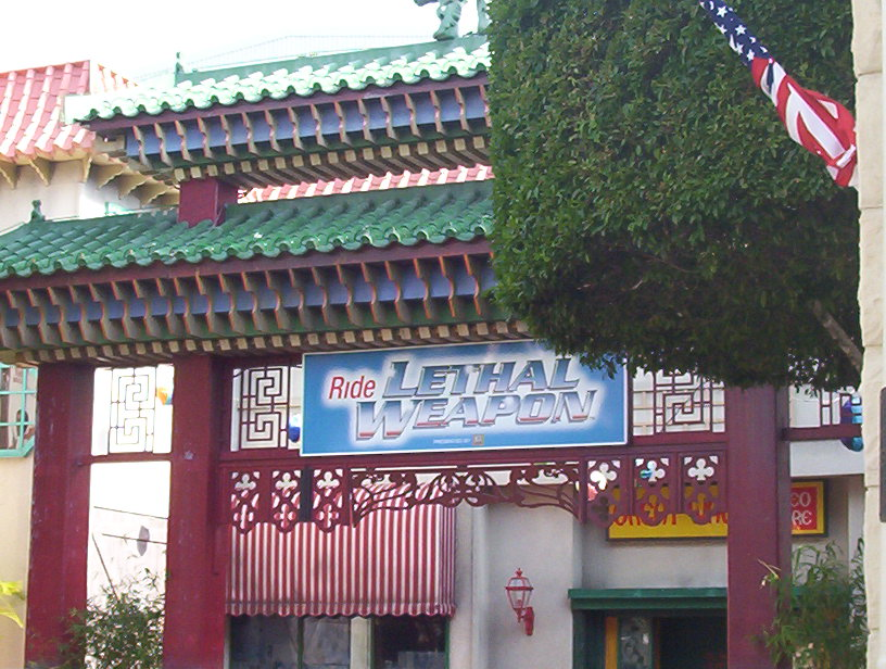 Lethal Weapon - The Ride entrance from Main Street at Warner Bros. Movie World.